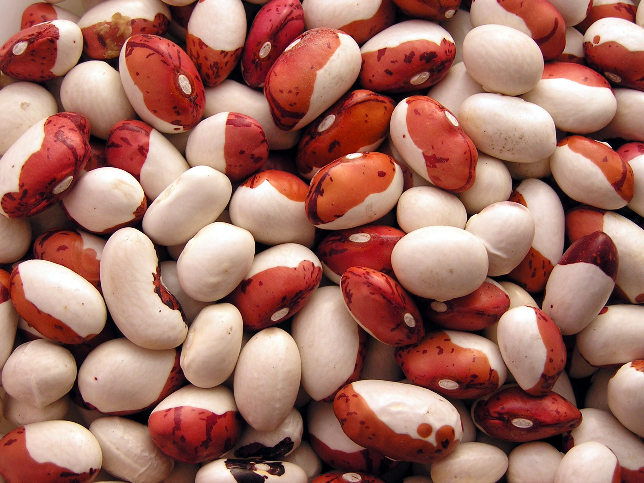 Phaseolus vulgaris